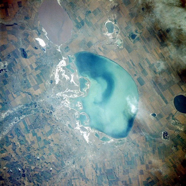 Lake Kulundinskoye, Russia - August 1989